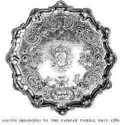 A drawing of a salver from the Fairfax family silver, in the article by Constance Cary Harrison.